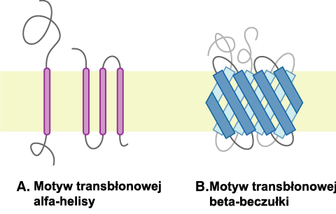 Schematic representation of the different categories of polytopic membrane proteins (or transmembrane proteins). Membrane is in yellow, transmembrane α helices in violet, and transmembrane β strands in blue